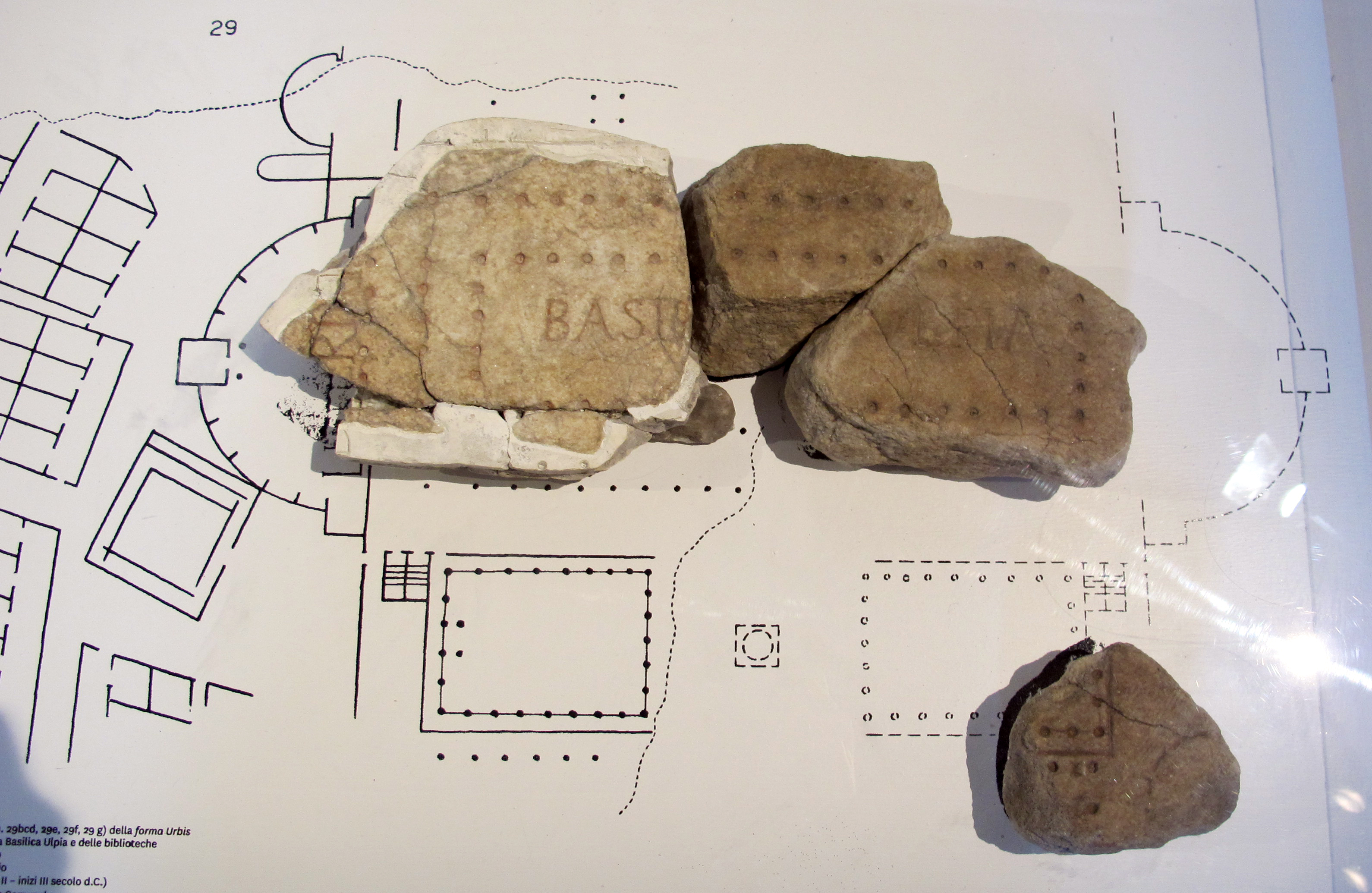 Ancient Libraries Exhibition (Colosseum, 2014)